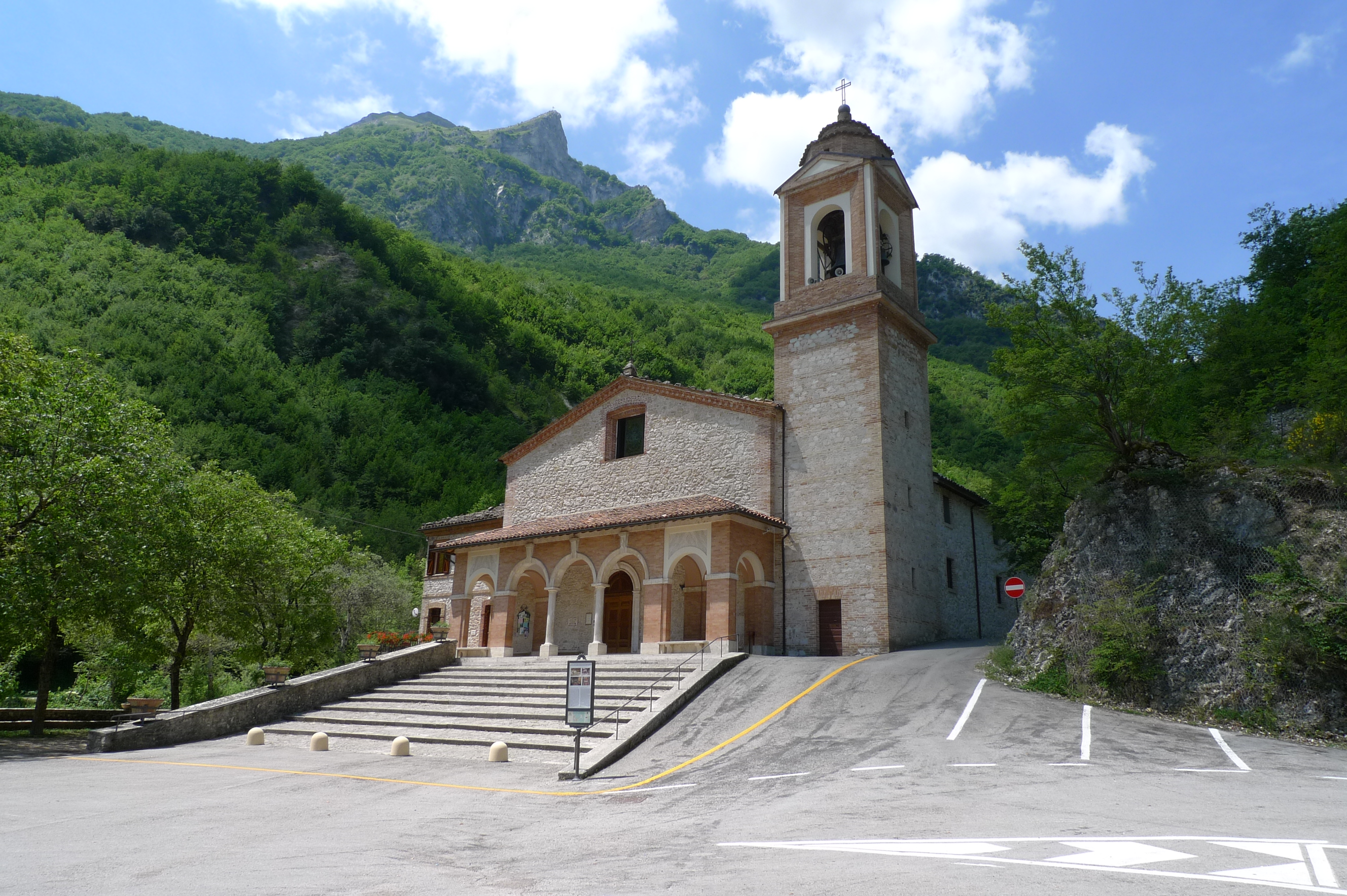 Montefortino (FM) - Church of Madonna dell'Ambro